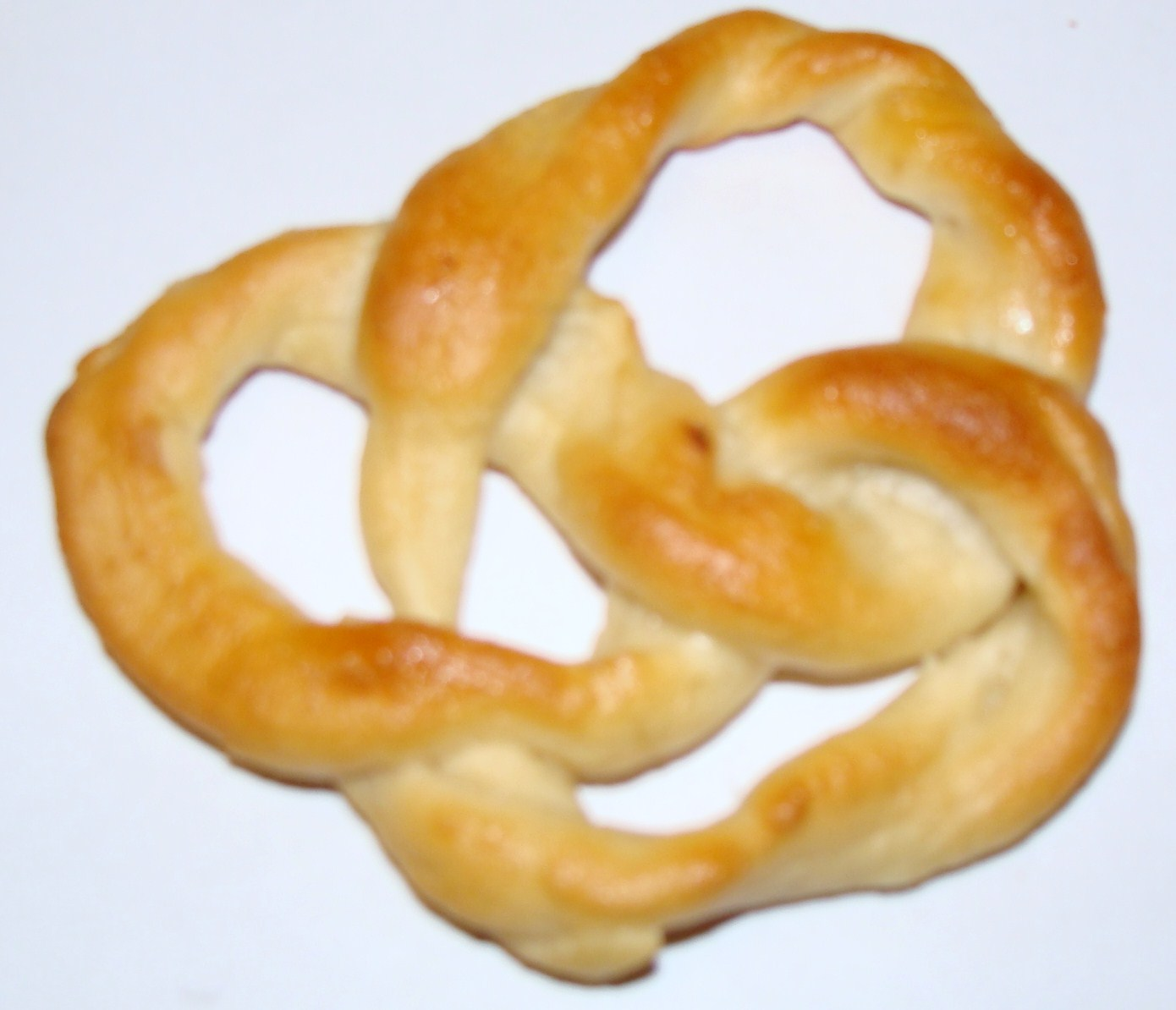 An edible trefoil knot. A prime knot with crossing number three, it is listed as 3_1 in the Alexander-Briggs notation and can be described as the (2,3)-torus knot. False: this is not a trefoil knot. This knot is called a figure-eight, listed as 4_1.